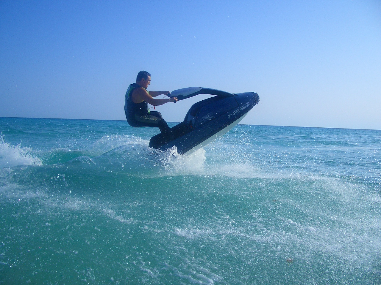 fullthrotle jetsky in Mallorca Spain.